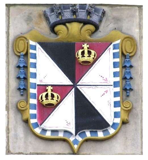 Goldkronach: relief of the city coat of arms at the town hall